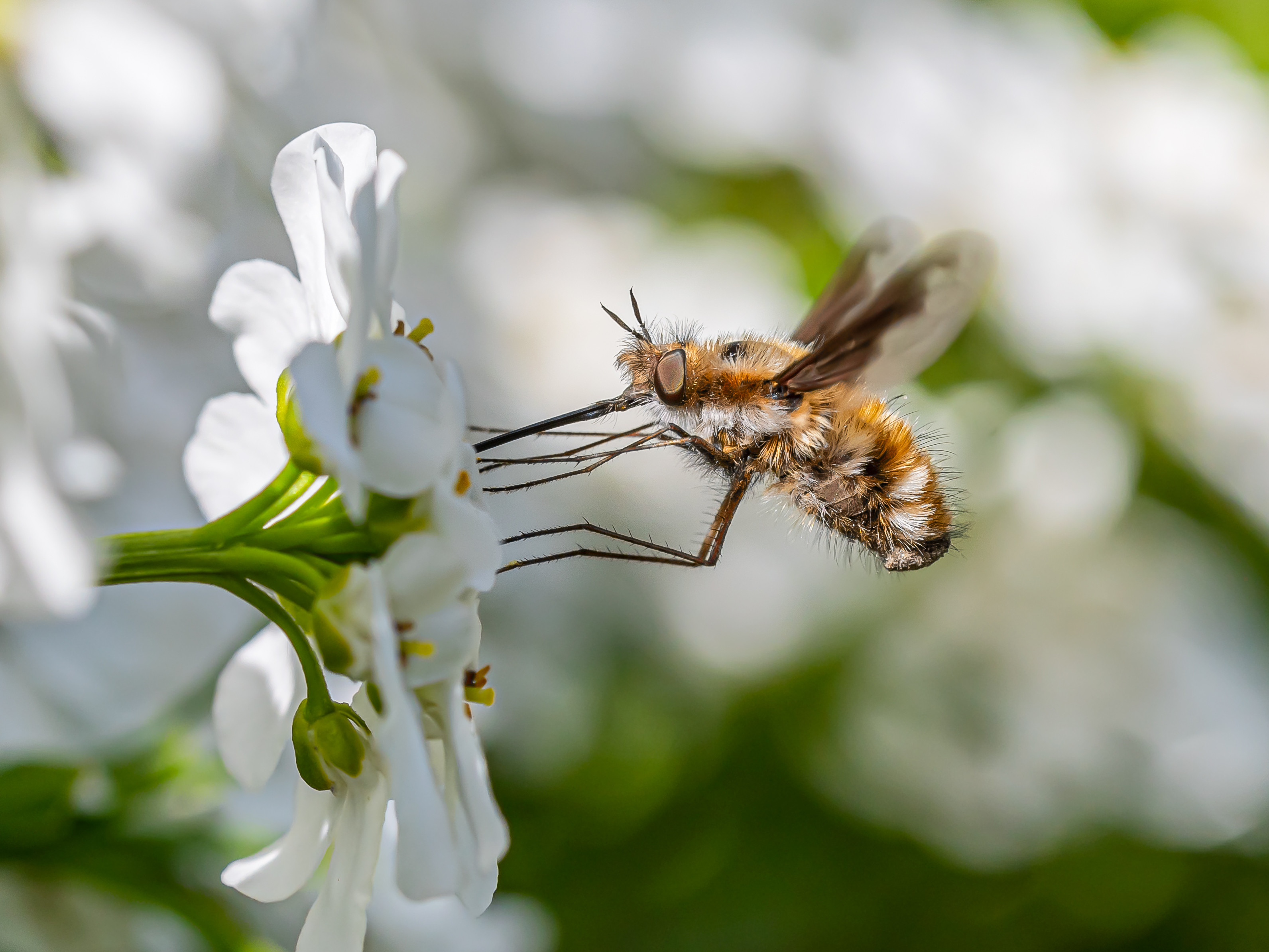 Bombylius major (large bee-fly or the dark-edged bee-fly) on a Iberis sempervirens (evergreen candytuft)